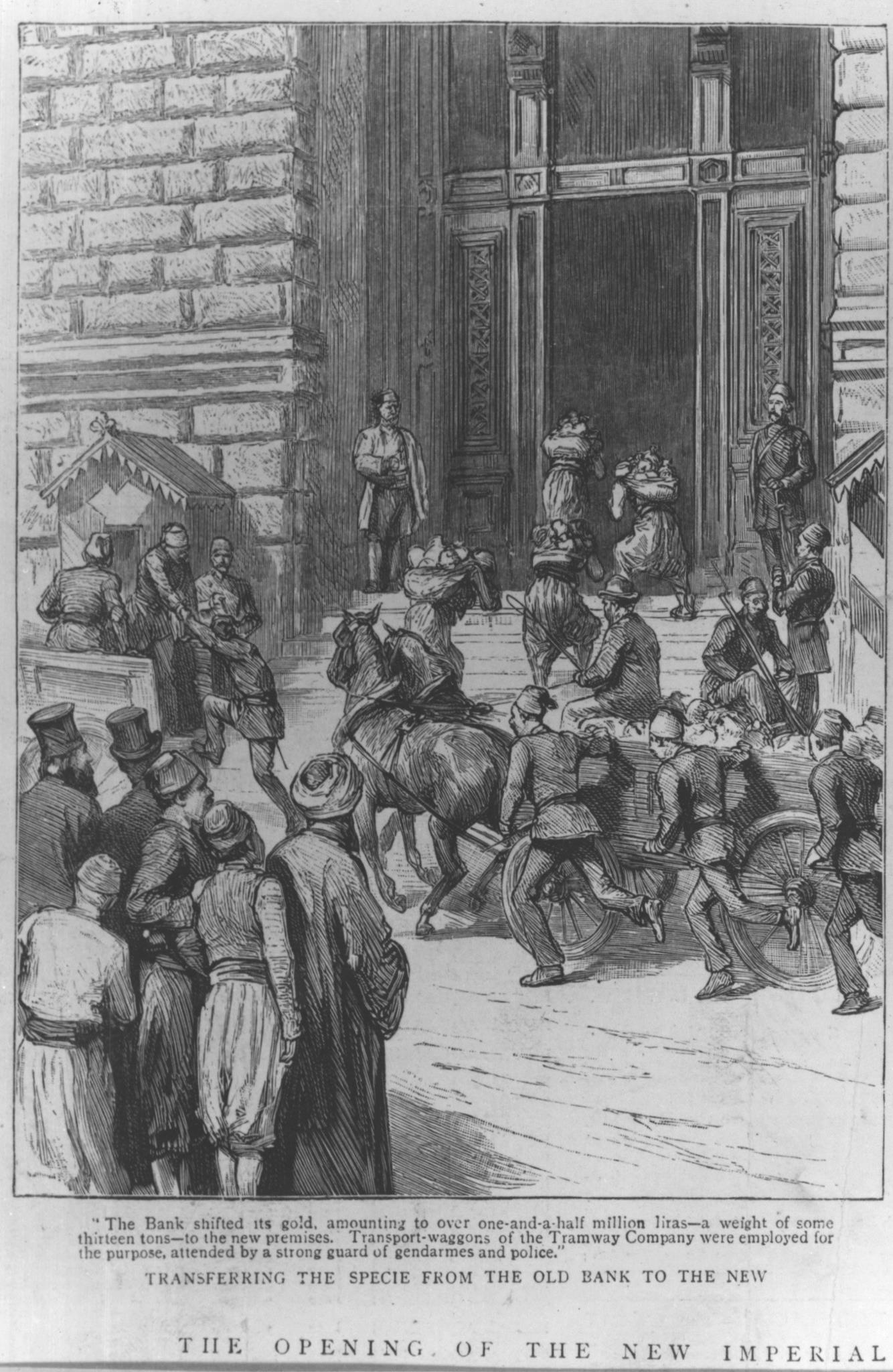 Sir Edgar Vincent, after his appointment as the chief executive manager of the Ottoman Bank in 1889, envisioned a new headquarters building that would architecturally match the institution’s recently acquired power. This new building was commissioned in 1890 to Alexandre Vallaury, one of the most outstanding local architects of the time. A few days later, the bank’s gold reserve,1,500,000 liras weighing 13 tons, was transferred from the bank’s former vault in Saint Pirre Han to its new location. "Transfering the specie from the old bank to the new", The Graphic, June 1892